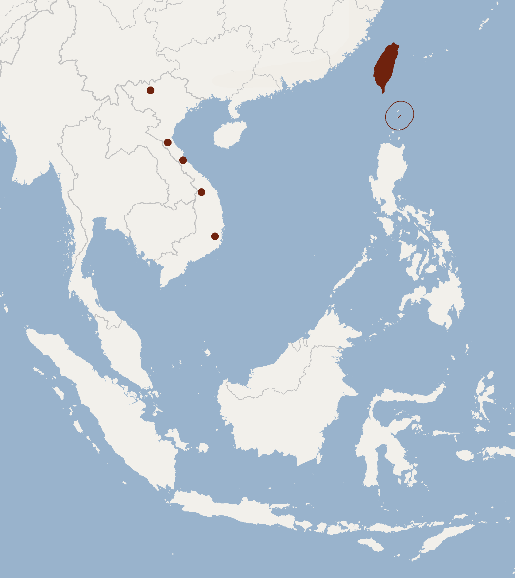 According to Smith & Xie, 2008, Jenkins & al, 2013